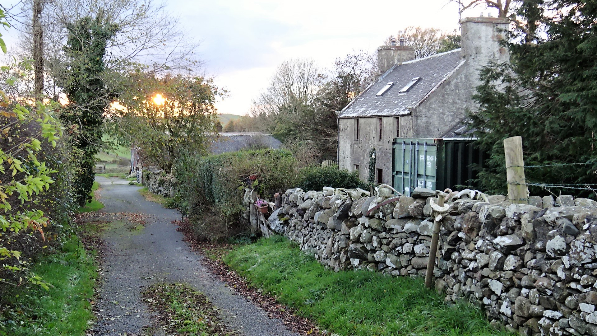 Old Public House, Clachan of Penninghame, Dumfries & Galloway. The lane lead to the Mains of Penninghame and the old Kirk of Penninghame.